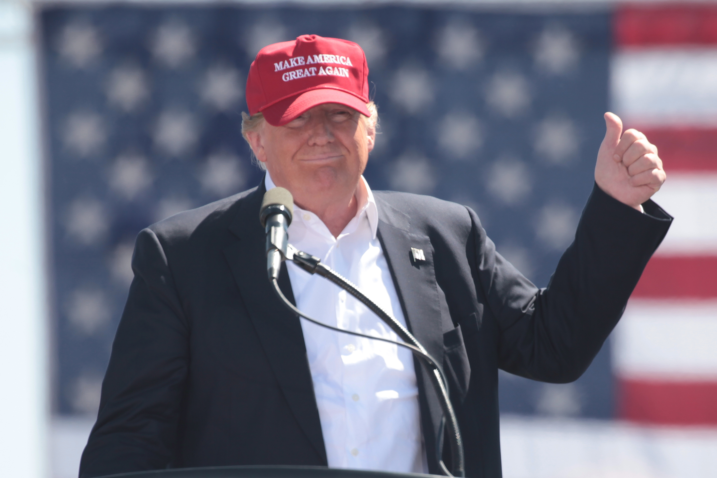 Donald Trump speaking with supporters at a campaign rally at Fountain Park in Fountain Hills, Arizona.